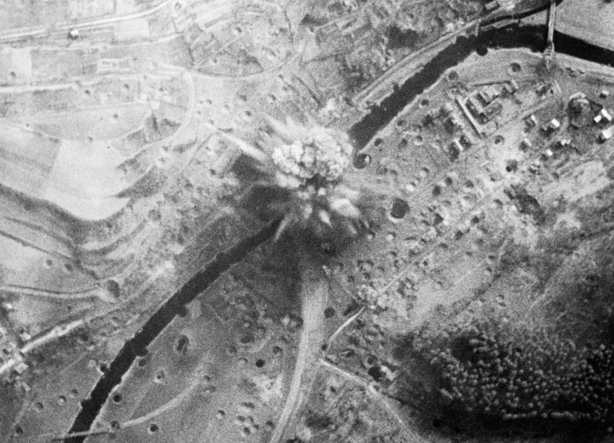 A 22,000-lb (10,000 kg) MC deep-penetration bomb (Bomber Command executive codeword 'Grand Slam') released from a Royal Air Force Avro Lancaster B Mark I (Special) (PB996 'YZ-C') of No. 617 Squadron RAF, flown by Flying Officer P. Martin and crew, explodes on its target, the railway viaduct at Arnsberg, Germany. The viaduct was attacked on 15 March with one bomb in poor weather, with no hits. It was destroyed four days later, using 6 "Grand Slam" and 13 "Tallboy" bombs.